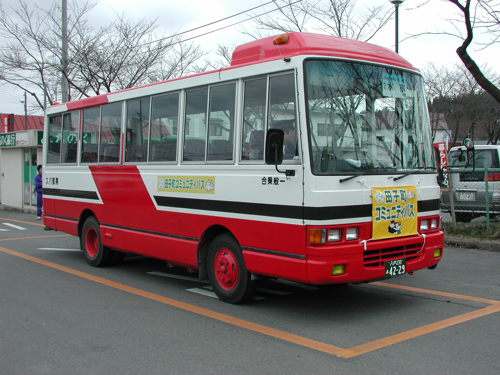 Hino Rainbow RB U-RB1WEAA for Takko Town Community Bus at Sun Mall Takko Bus Stop